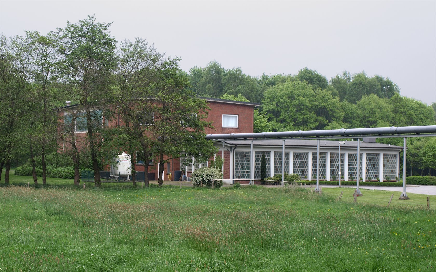 Krempermoor (Schleswig-Holstein,Germany), waterworks , photo 2009